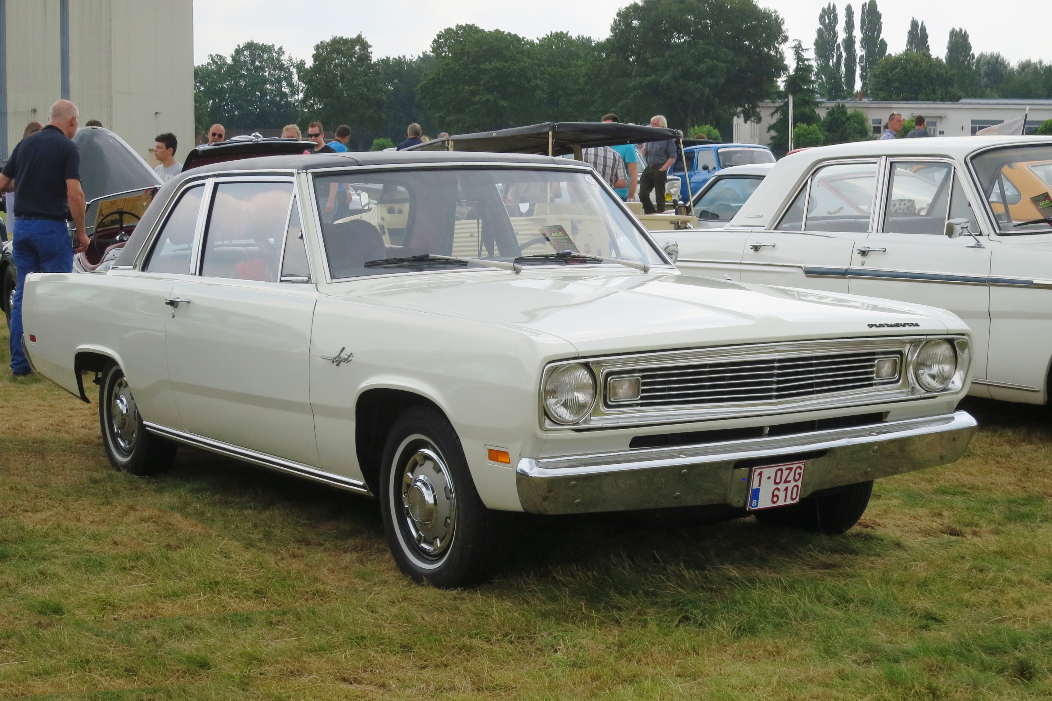 1969 Plymouth Valiant Signet 2-door Sedan - Schaffen-Diest 2016